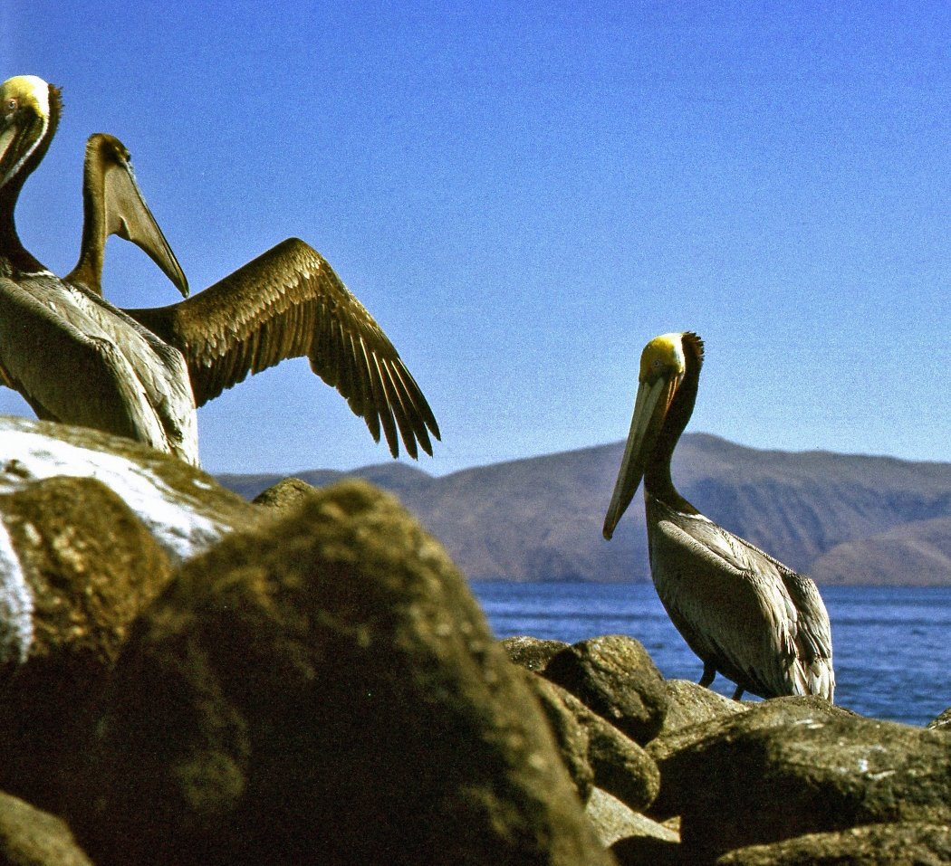 Brown Pelicans (Pelicanus occidentalis) perch on rocks in the California Bay Area. Habitat: Salt bays, ocean.